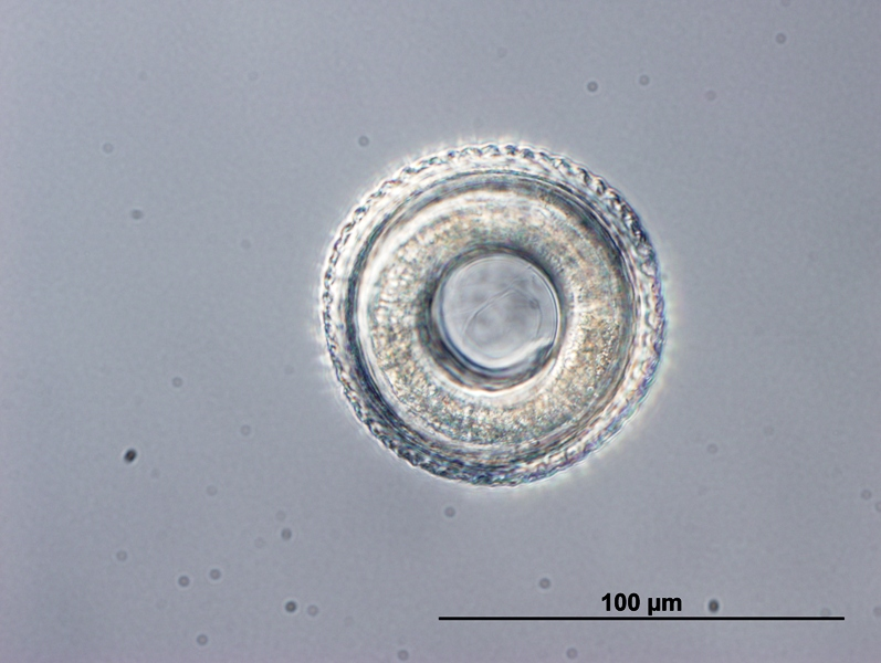 Toxocara canis egg with fully devoloped larva L3 (Numarski contrast)